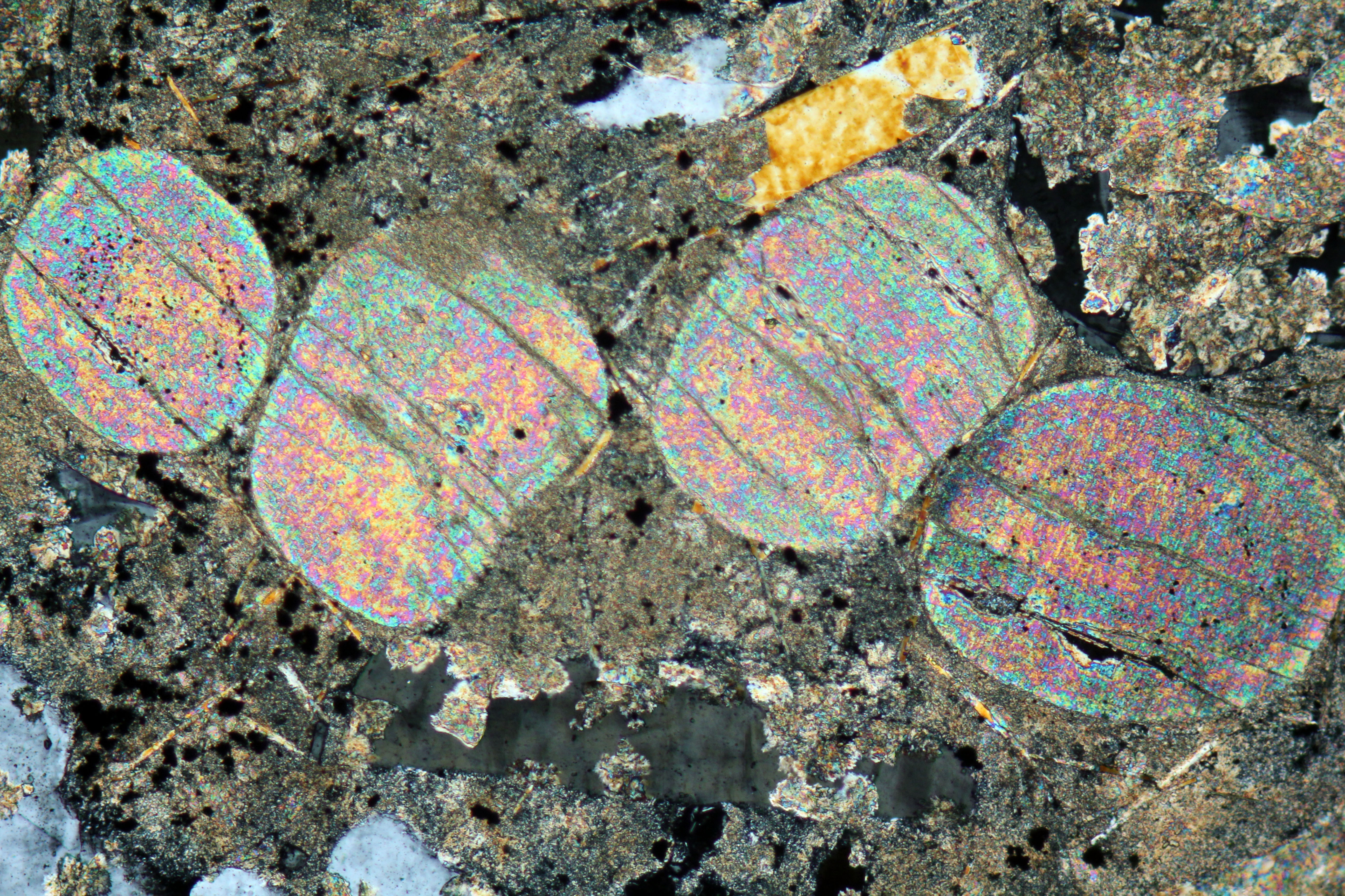 Rounded crystals of gregoryite in a natrocarbonatite from Ol Doinyo Lengai, Tanzania, Africa. Crossed nicols image, magnification 10x (Field of view = 2mm)